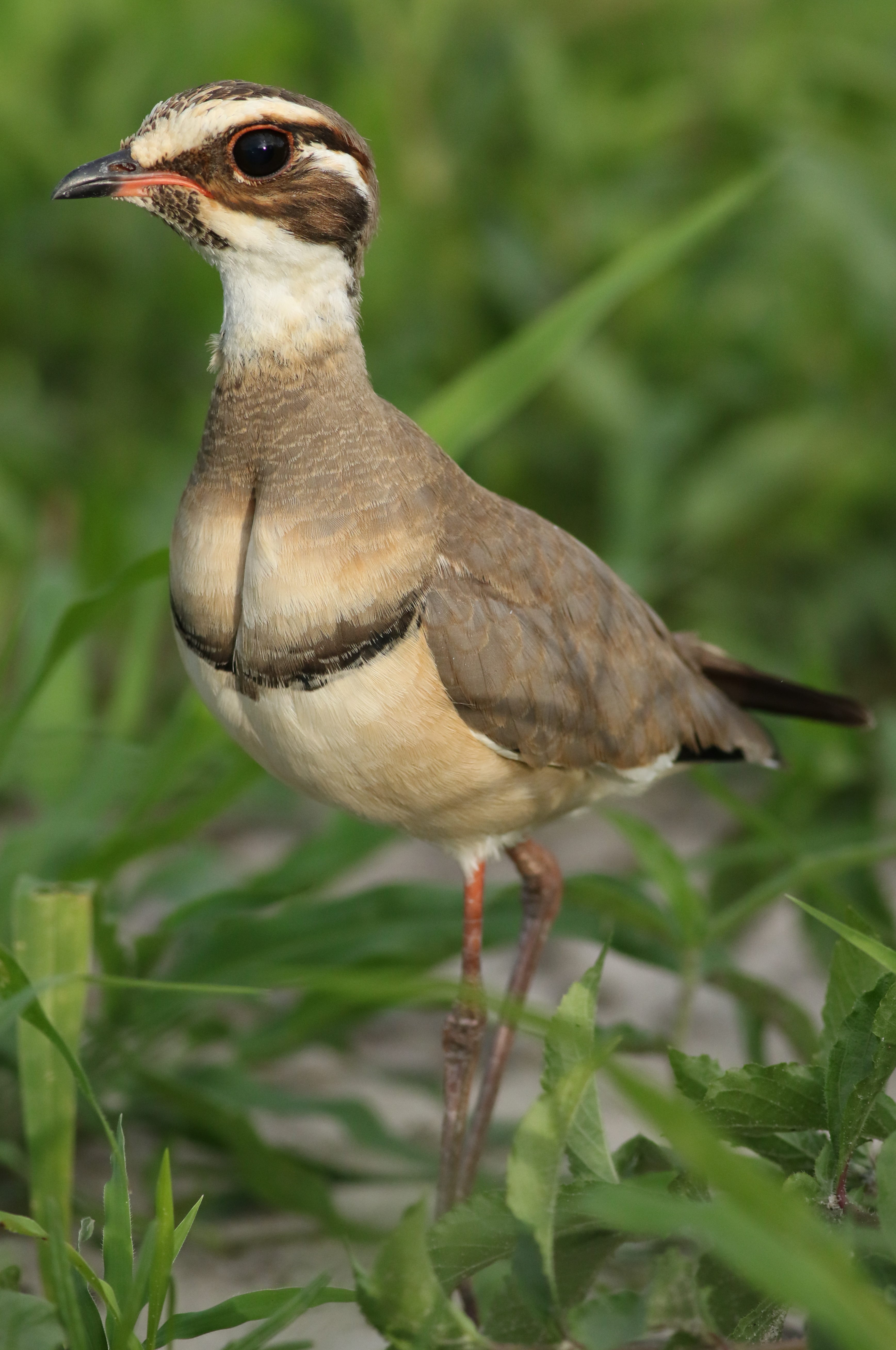 Bronze-winged courser, Rhinoptilus chalcopterus, at Elephant Sands Lodge, Botswana